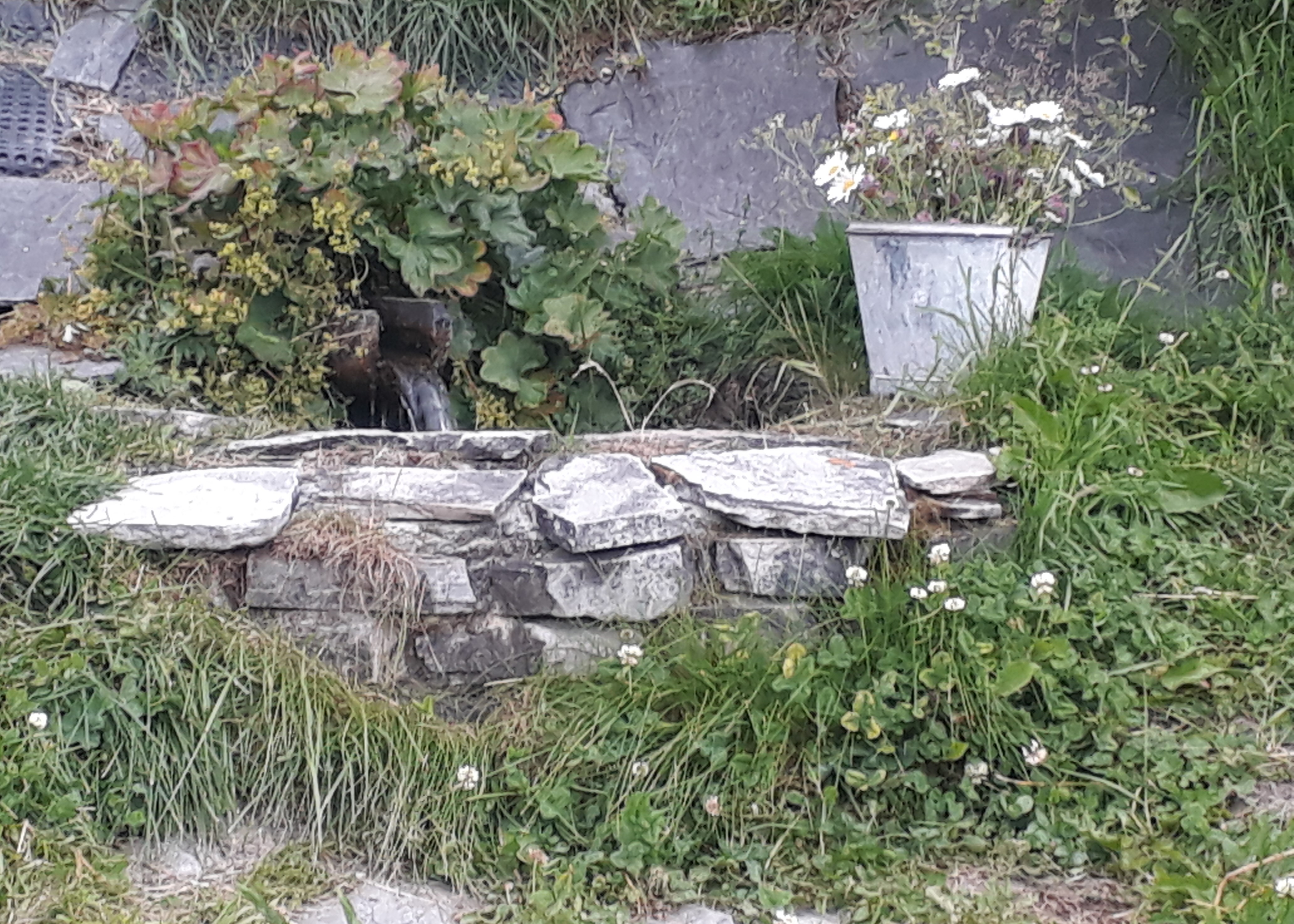 St.Olaf's source at Dovre